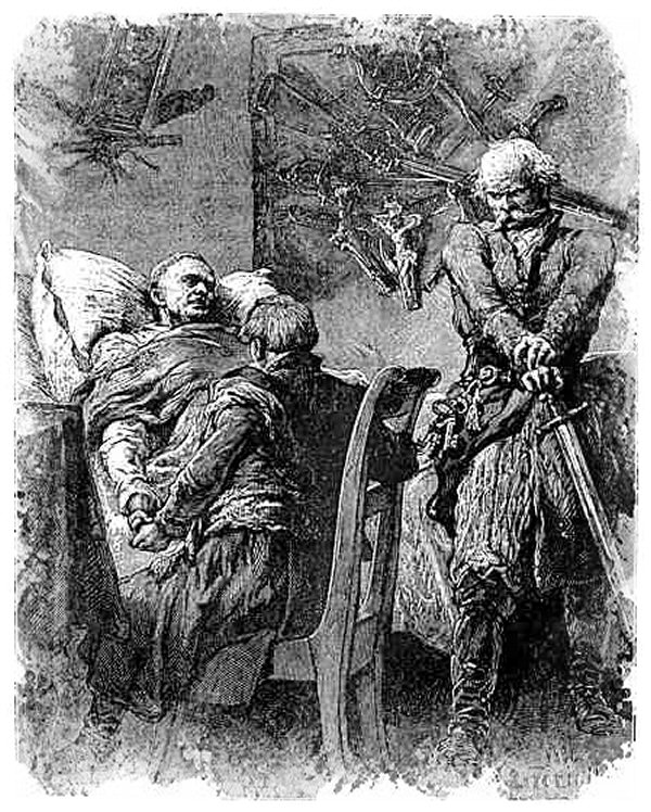 Illustration of Pan Tadeusz, Book 10